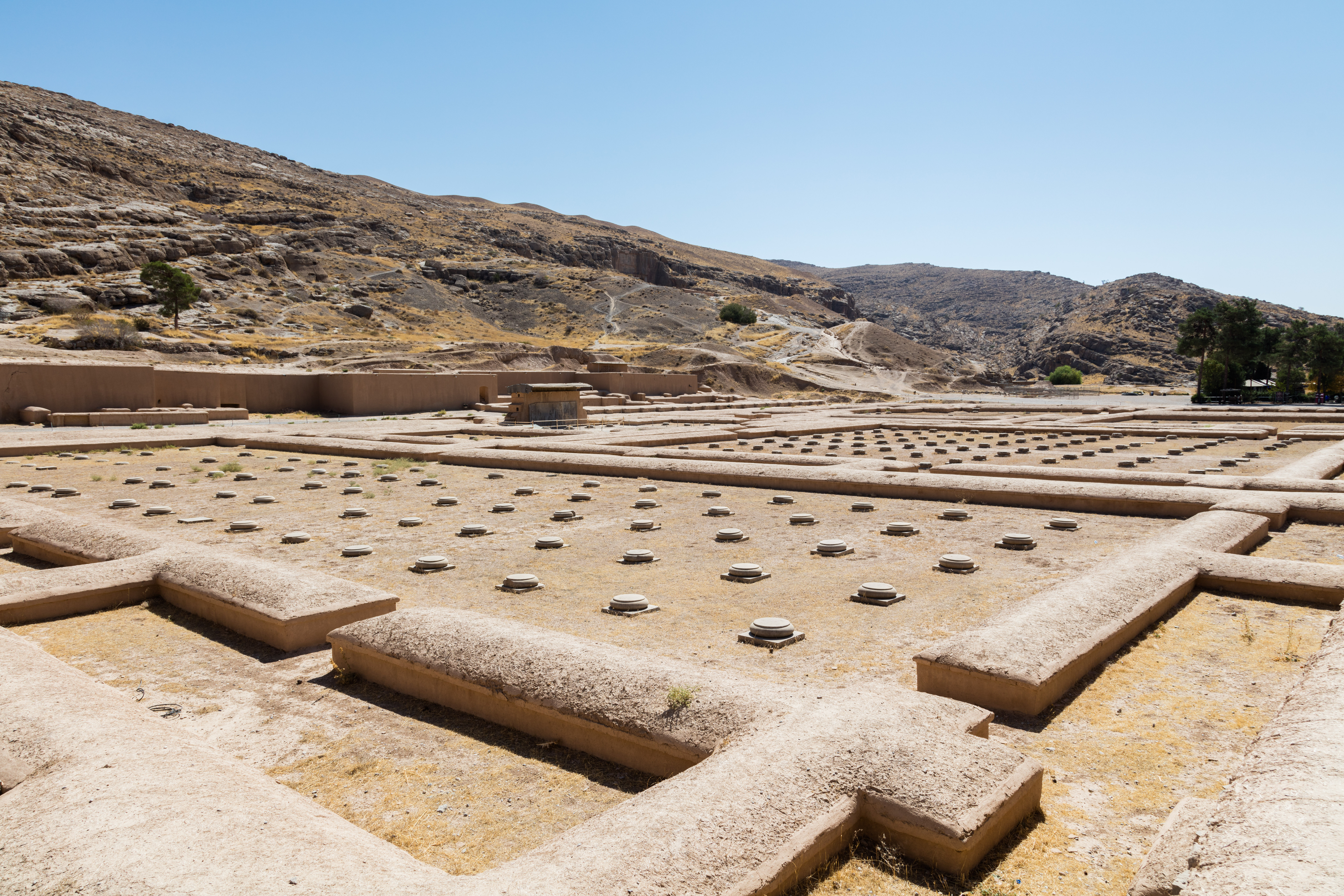 Persepolis, Iran